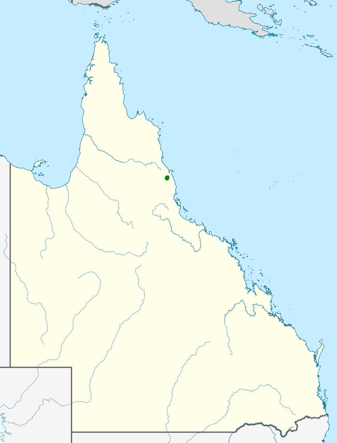 Map template derived from File:Australia_Queensland_location_map_blank.svg. Information adapted from Weston, Peter H. (1995) "Persoonioideae" in McCarthy, Patrick (ed.) , ed. Flora of Australia: Volume 16: Eleagnaceae, Proteaceae 1, CSIRO Publishing / Australian Biological Resources Study, pp. 384, 466 ISBN: 0-643-05693-9. .